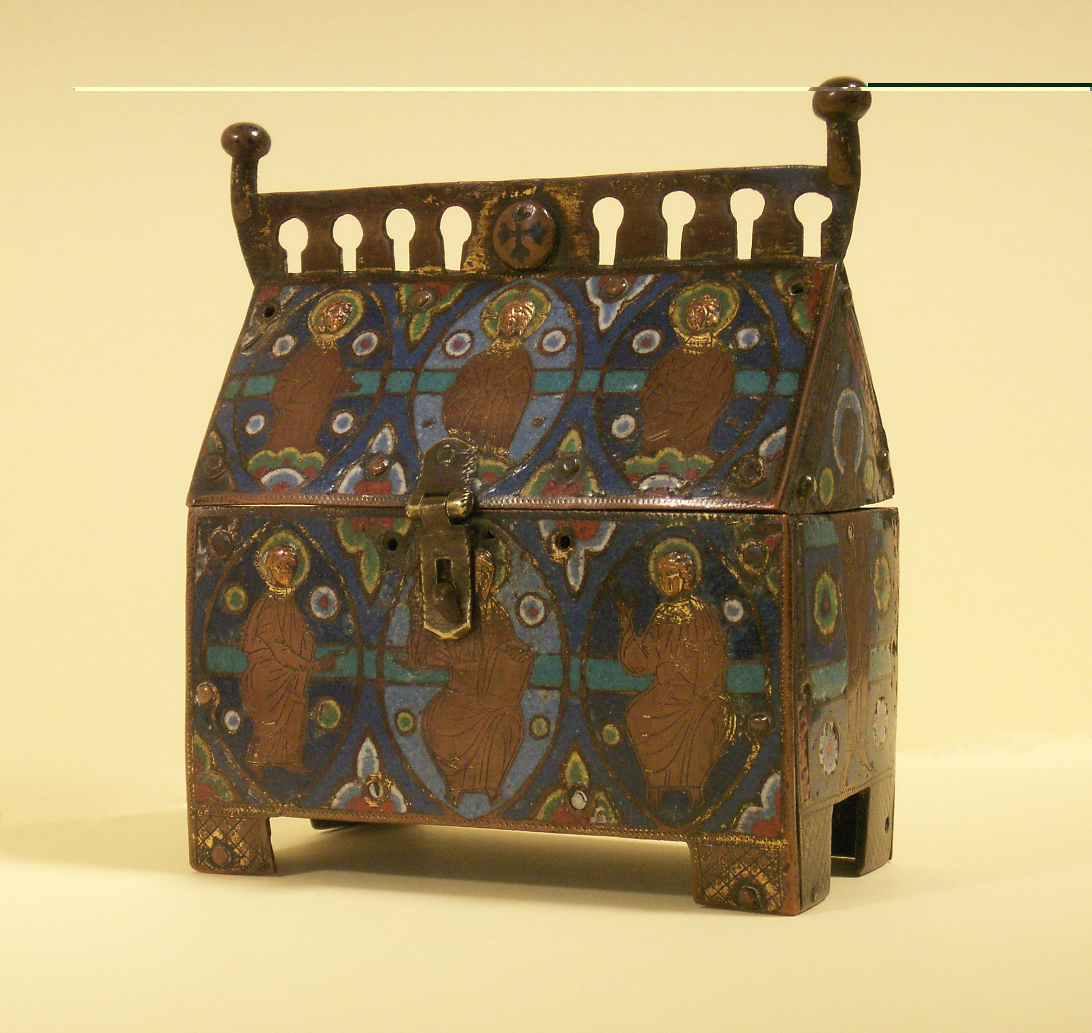 A view of the Brooke Reliquary